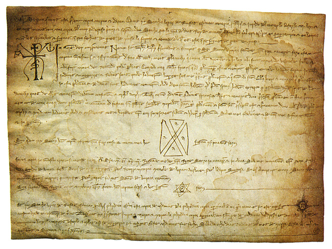 Document issued by Sancho VI